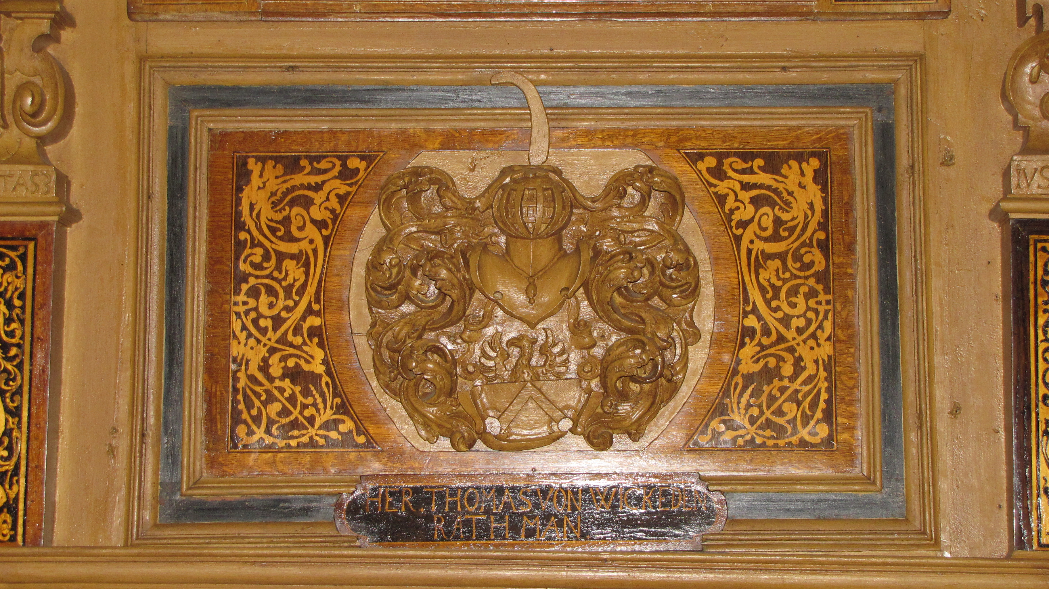 Coat of arms of Thomas von Wickede († 1626) at the organ front in St. Aegidien, Lübeck